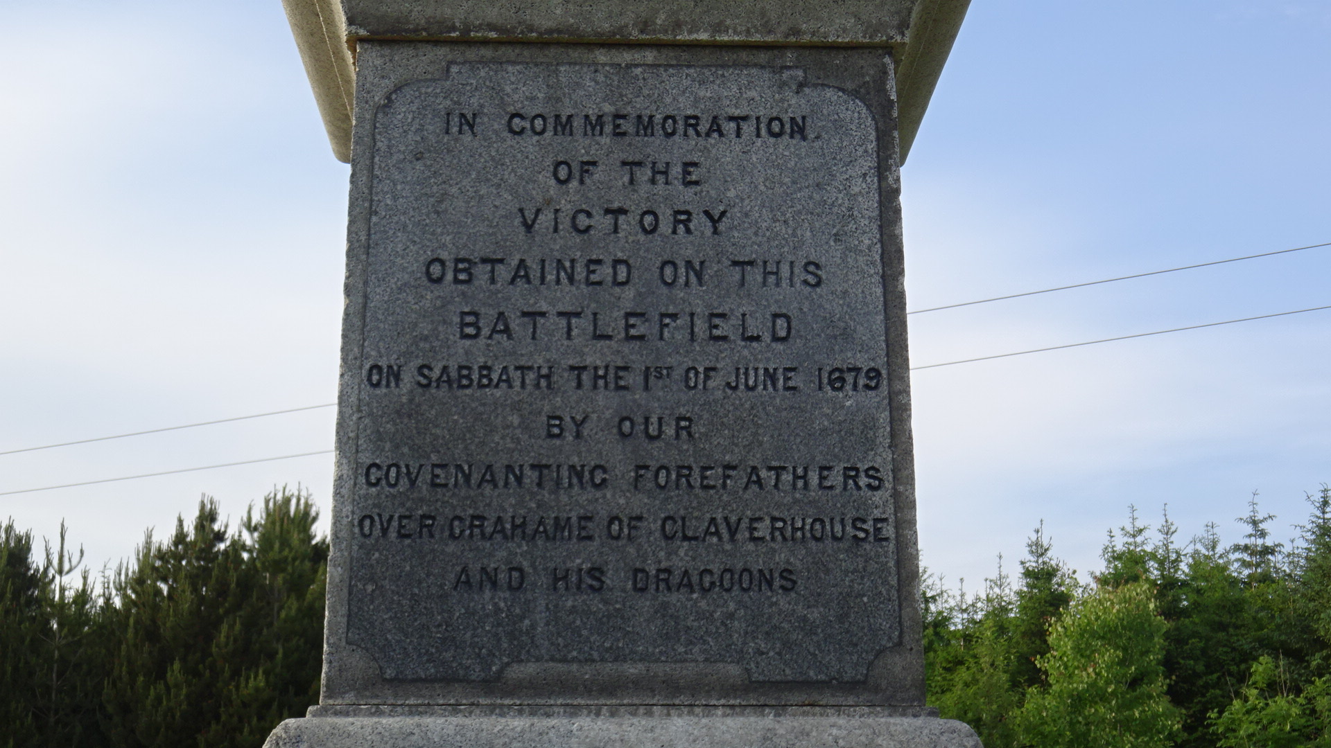 Battle of Drumclog Memorial inscription, East Ayrshire, Scotland.